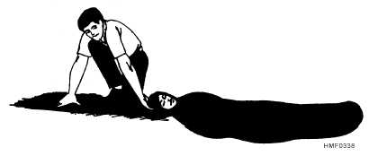 Diagram showing how to use the blanket drag to remove an injured person from a dangerous situation.